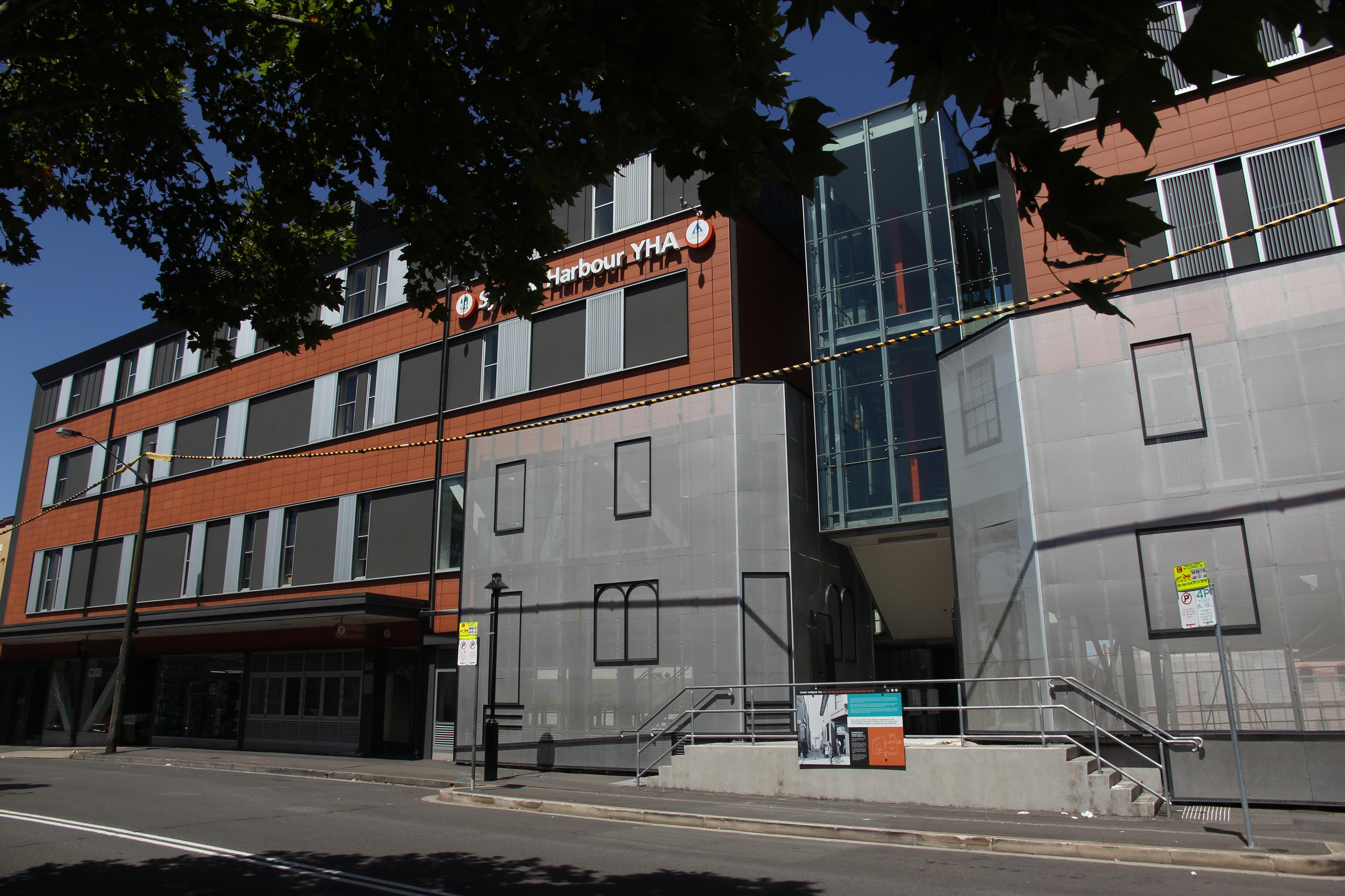 Big Dig Archaeological Site, also known as the Cumberland Street Archaeological Site located between Cumberland and Gloucester Streets in The Rocks in the City of Sydney, New South Wales.Located above the archeoloiral site is the Youth Hostels Australia Sydney Harbour premises. The ground floor level of the hostels serves as a void to protect the big site; with the hostel rising three stories above the big site.